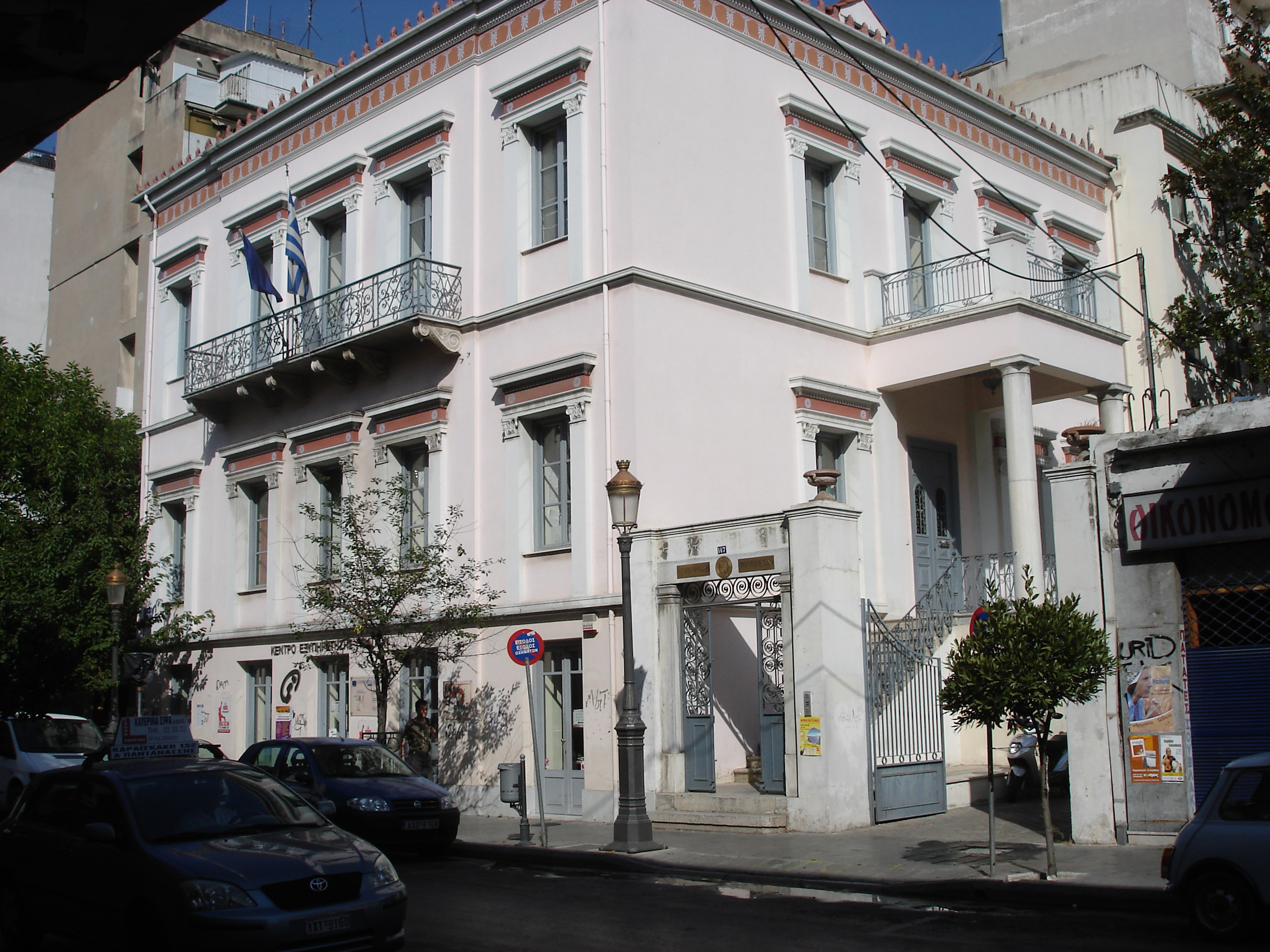 New city hall, Patra ,Achaea ,Greece Νέο δημαρχείο Πάτρας